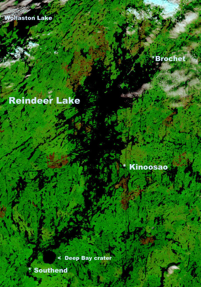 Portion of NASA map showing Reindeer Lake on the Saskatchewan Manitoba border. (Captions have been added by Kayoty)